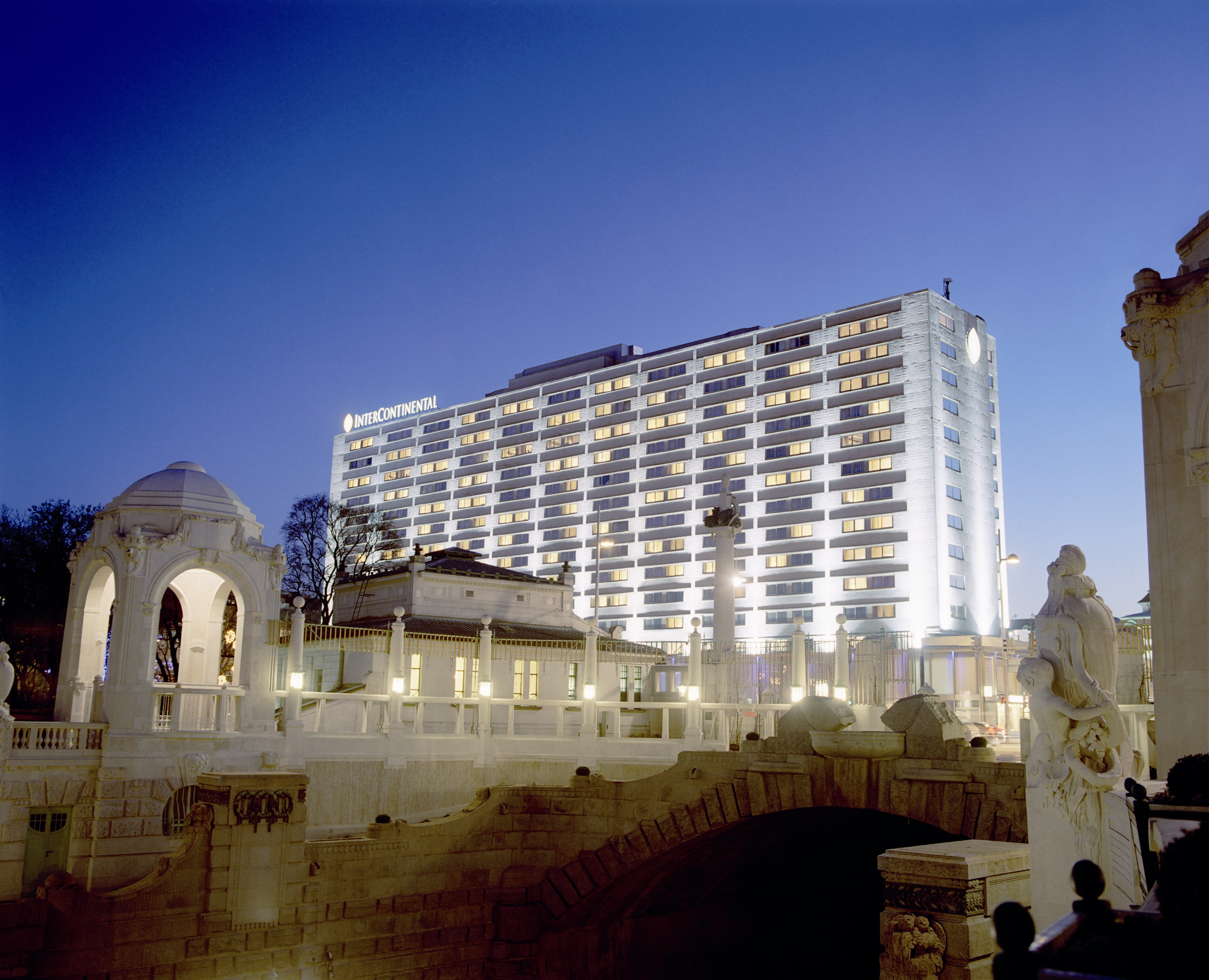 The exterior of the InterContinental Vienna